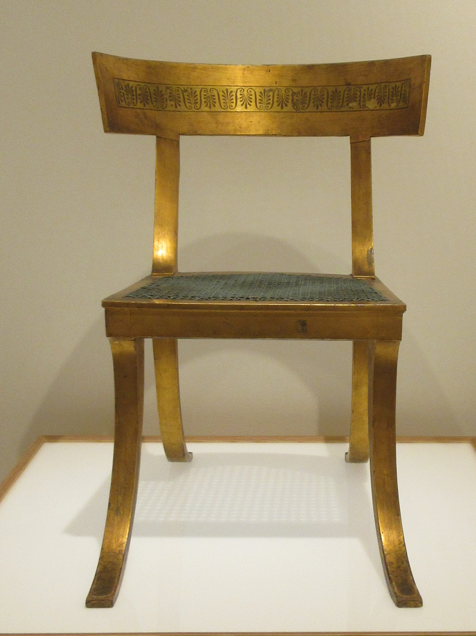 Klismos chair by Nicolai Abildgaard from c. 1790